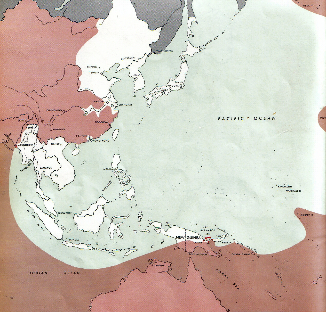 Map of the front against Japan as of 15 Jan 1944: This map is taken from the source "Supplement to The Biennial report of the Chief of Staff of the United States Army July 1, 1943 to June 30 1945". (See cover Forward and Map details)